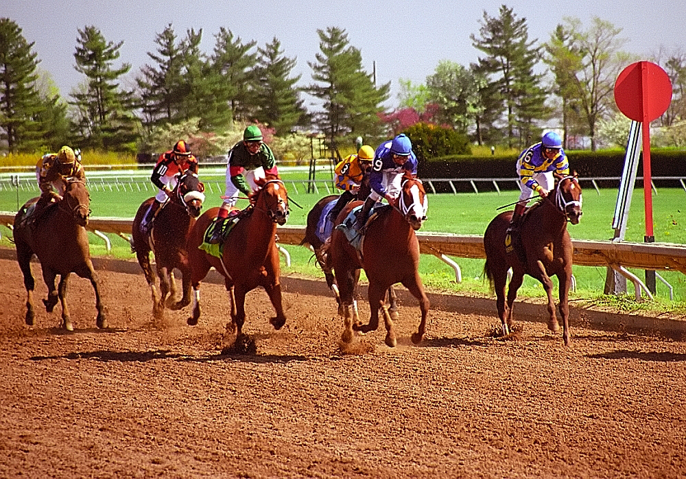 A horse race at Keeneland in Lexington, Kentucky.